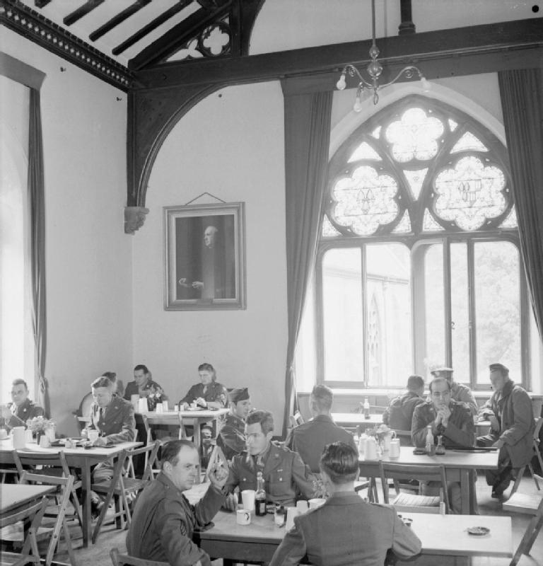 American Red Cross Service Club, Norwich- Life at the Club at the Bishop's Palace, Norfolk, England, UK, 1943 American service personnel enjoy a meal and a smoke in the impressive surroundings of the cafeteria at the American Red Cross Service Club, in what was once the dining room of the Bishop's Palace. The room is dominated by a huge arched window with flower-shaped stained glass panels, and paintings of former Bishops line the walls. According to the original caption, the cafeteria is open "day and night, staffed by British women, paid and volunteer. Tables, chairs, equipment came on reverse Lease Lend. Breakfast, lunch, supper cost a shilling".